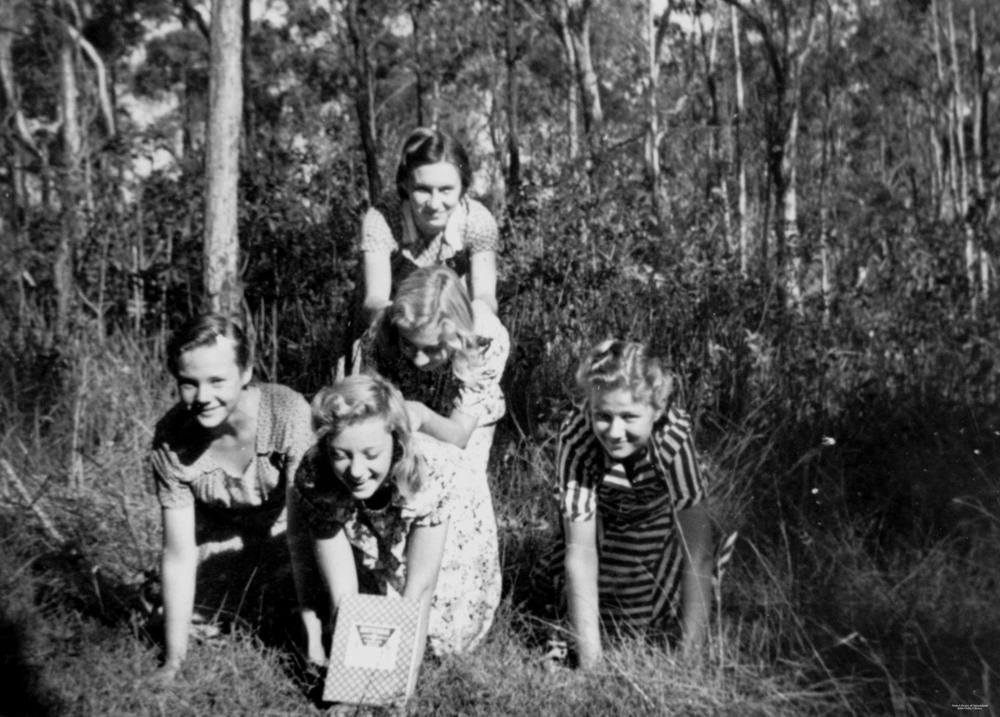 Creator: Unidentified Location: Brisbane, Queensland Description: Five Latvian girls, possibly Girl Guides, arranged in a crouching position for this image (Description supplied with photograph). The girls are not in uniform. View this photograph at the State Library of Queensland Information about State Library of Queensland’s collection